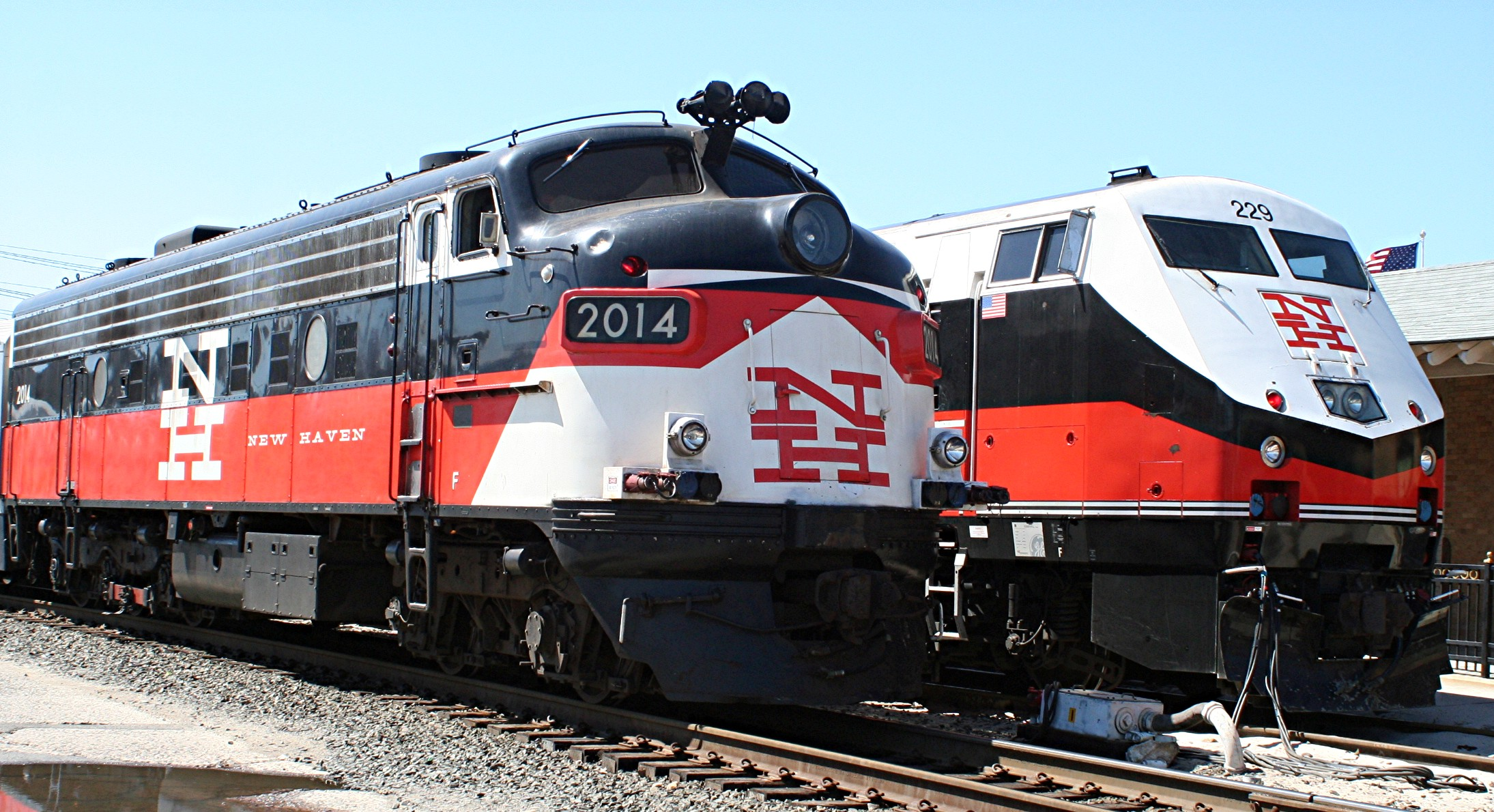 Metro-North Railroad locomotives in the livery of the long defunct New York, New Haven and Hartford Railroad. While the locomotive on the left, an EMD FL9, was once built for the New Haven, the new locomotive on the right (a GE P32AC-DM) has been painted in the New Haven livery to celebrate the heritage of today's Metro-North Railroad. Picture taken at Danbury on April 9th, 2006.